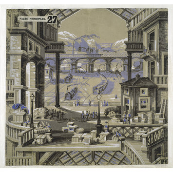 Wallpaper section from 1853 by Potters of Darwen, showing a railway station.